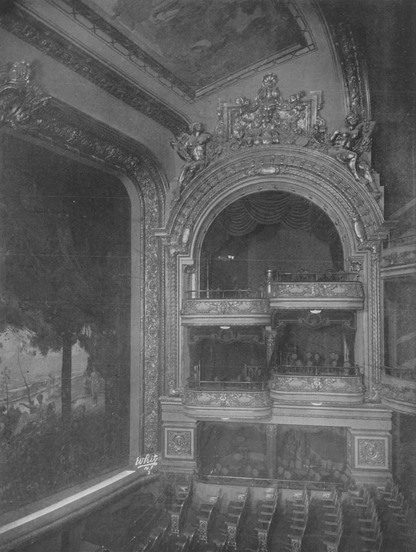 Columbia Theatre interior view